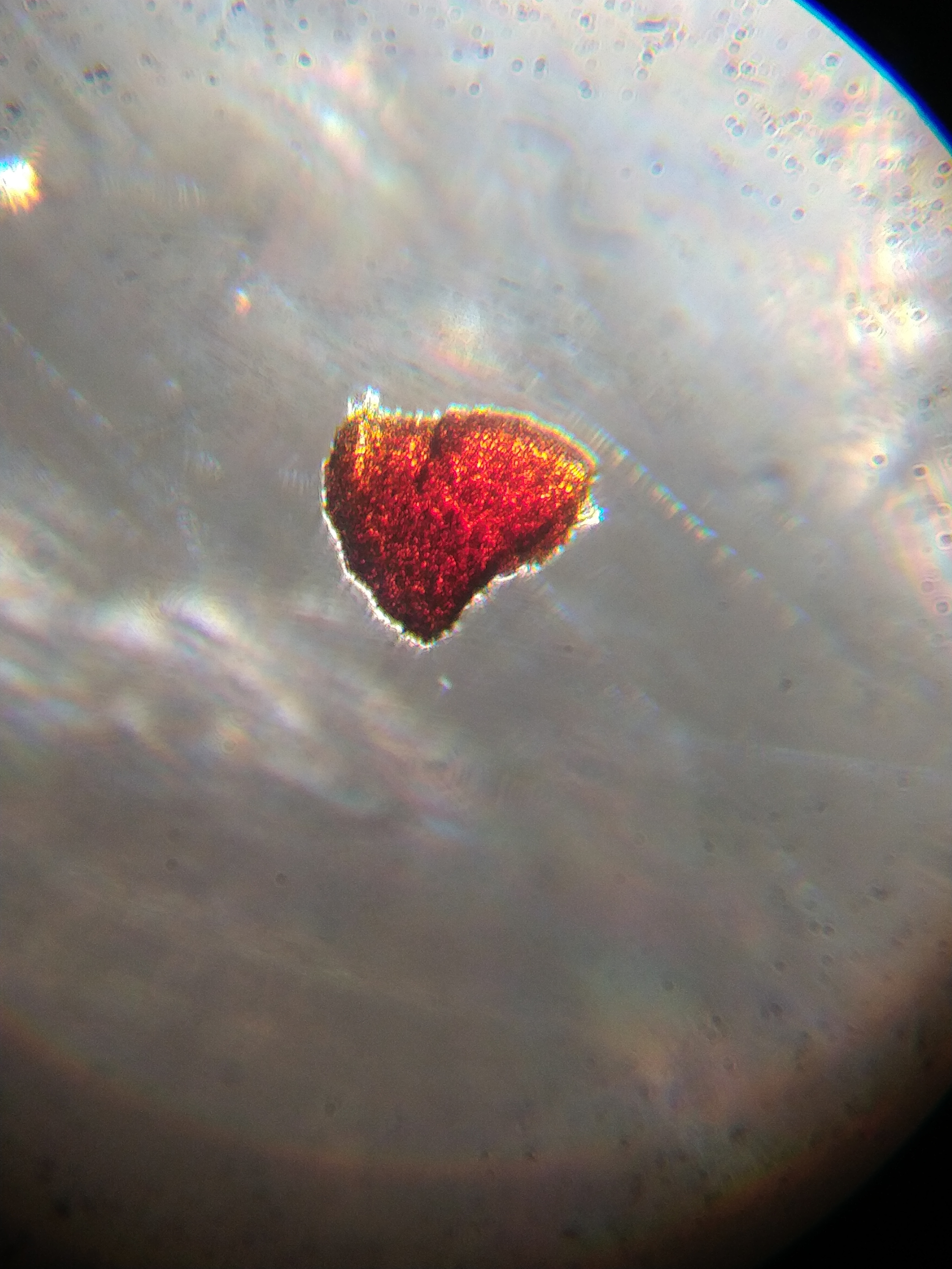 Part of a nail with hemorrhage under it, under the microscope